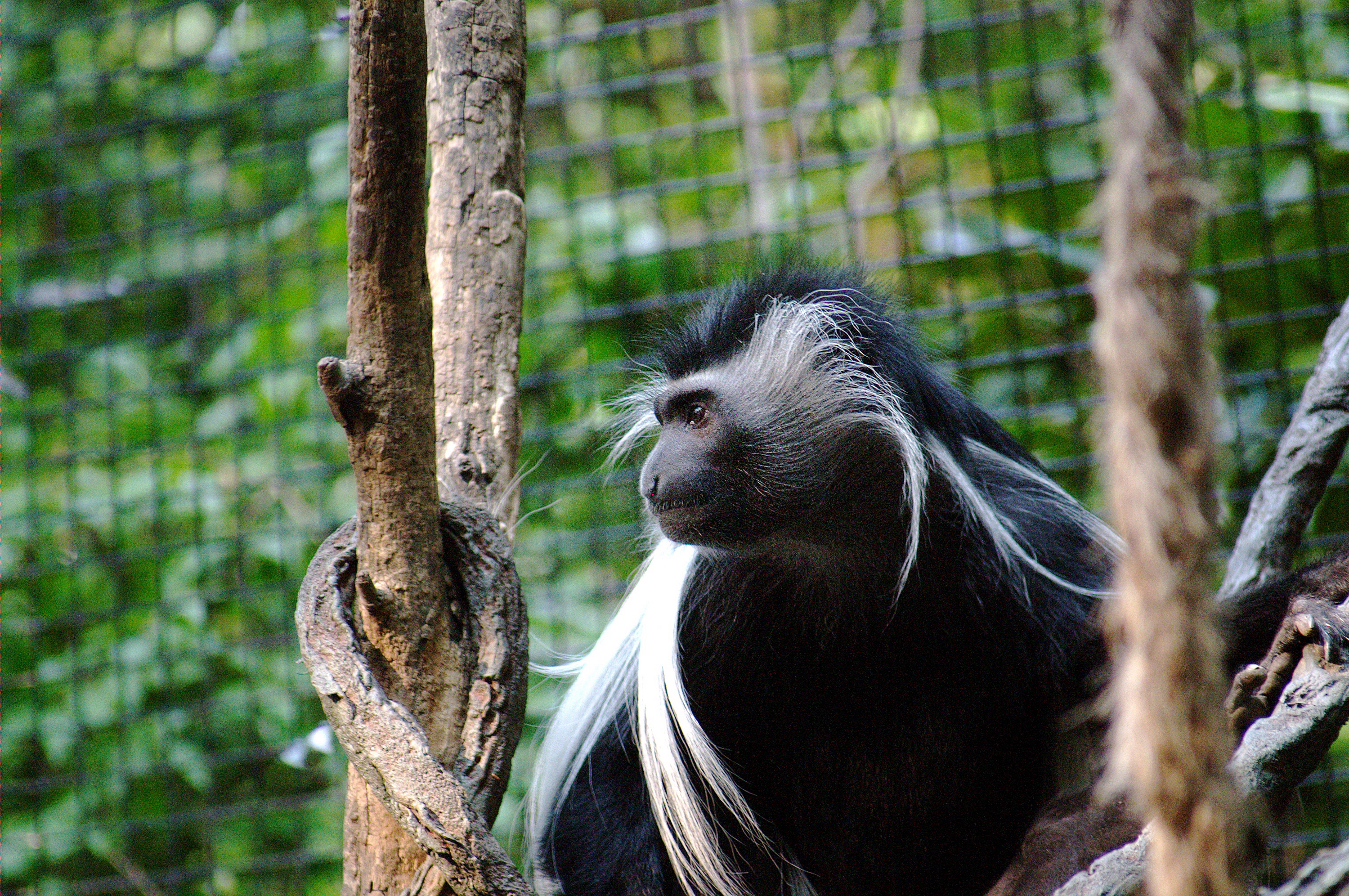 Angola Colobus (Colobus angolensis) in captivity at the Cincinnati Zoo. Photo taken by Kabir Bakie on August 7, 2005.